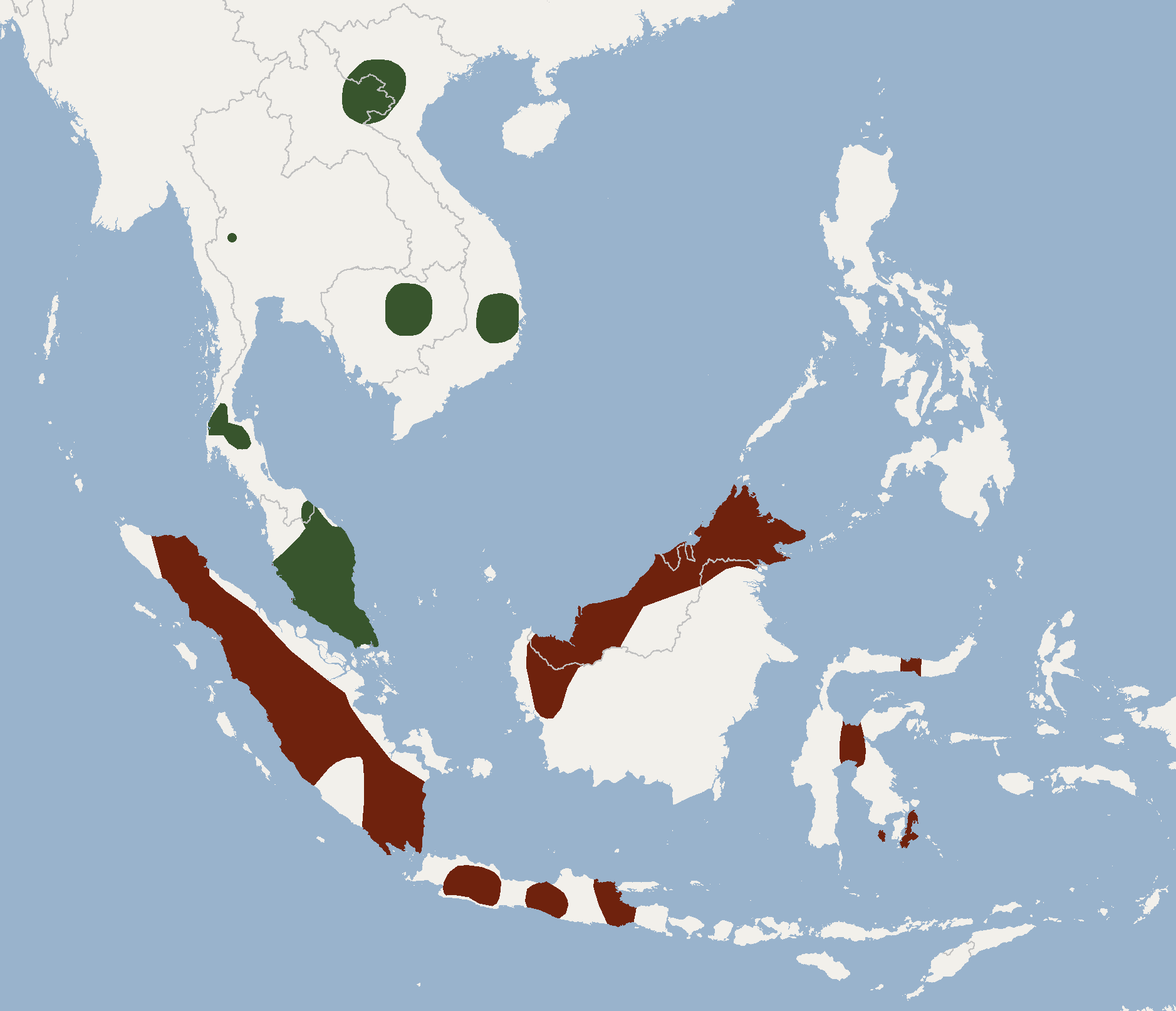 Geographical distribution of Kerivoula papillosa according to IUCNRedlist